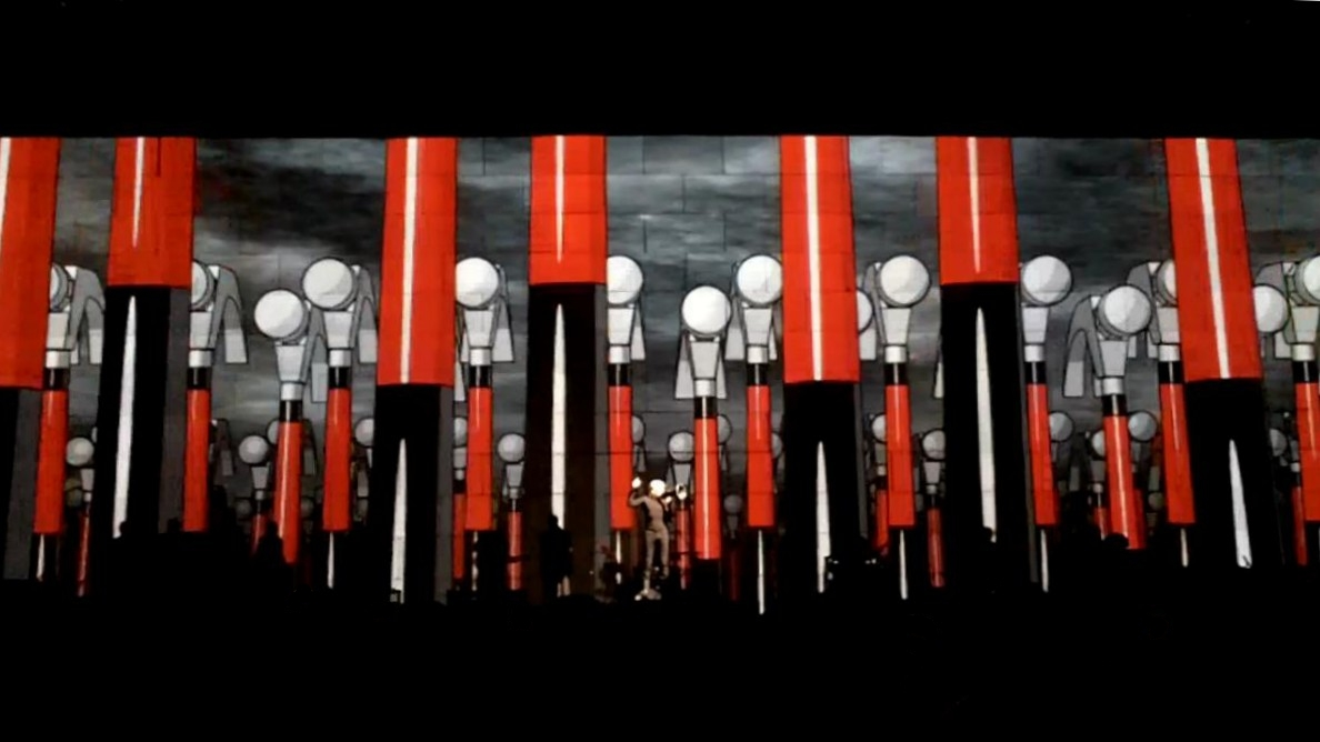 I took this photo from the 25th row, center stage, using a Kodak Playsport camera.